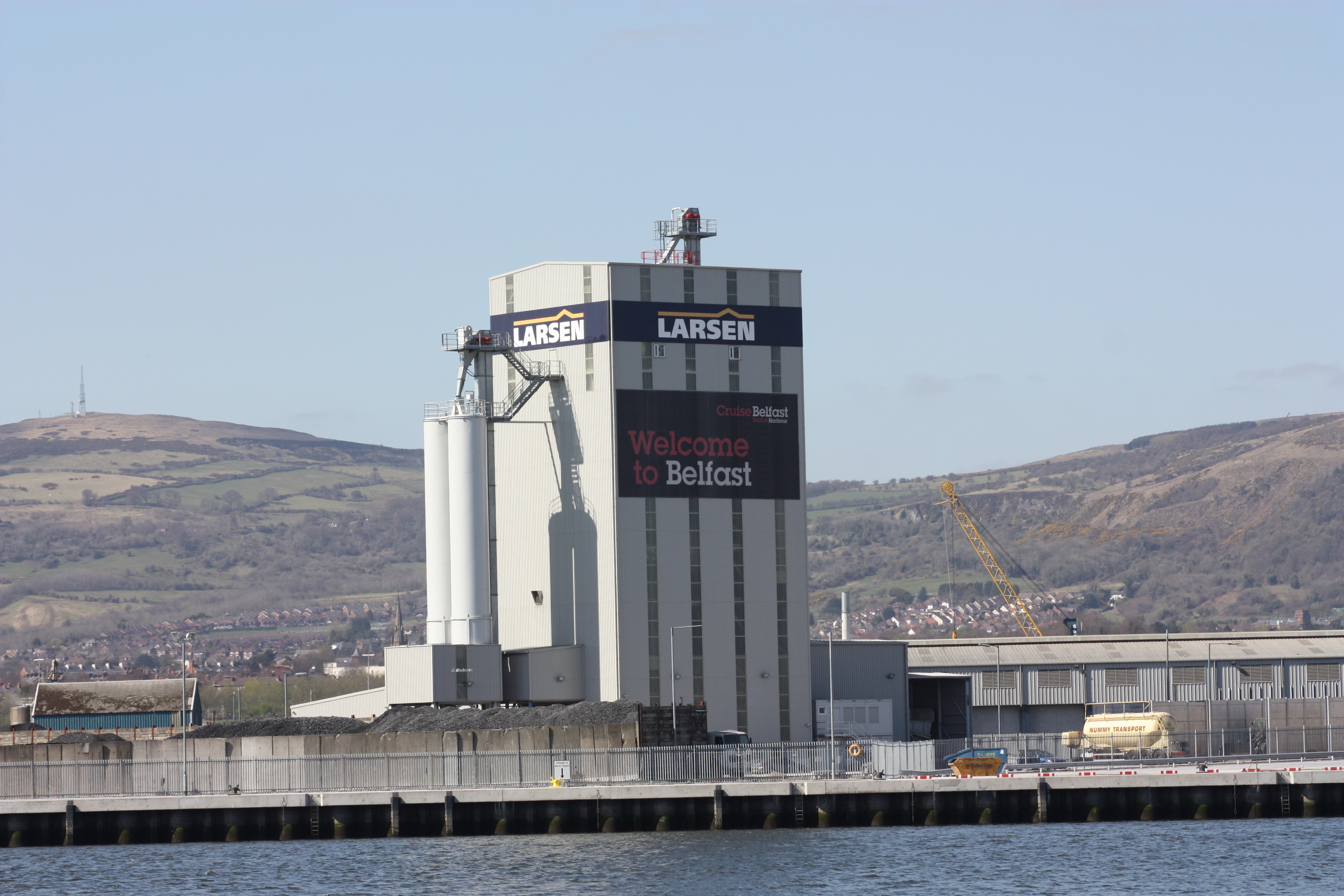 Larsen building products plant, Port of Belfast, Northern Ireland, April 2010